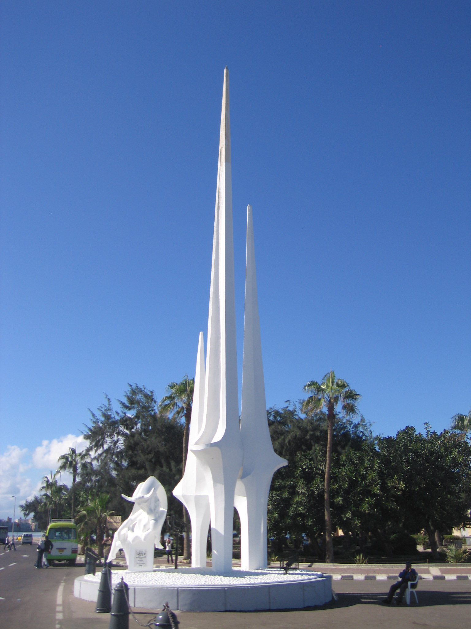 Sculpture of the sails, by the Egyptian sculptor Fathi Mahmoud, in front of the Bibliotheca Alexandrina, until his white sails announce the beginning of the Azarita neighborhood. The sculpture is inspired by the story of the creation of Alexandria through an ancient myth of the god of the sea, sometimes represented by a bull who has tightened his grip on a beautiful girl symbolizing Alexandria. The Sculpture of Sails was erected in 1968 on an ancient boulder known as Ras Lokias. It is characterized by a long series of rocks. The remains of Alexandria's Greek walls were discovered under the waters of the chain, as well as the remains of pillars, crowns and silver coins.